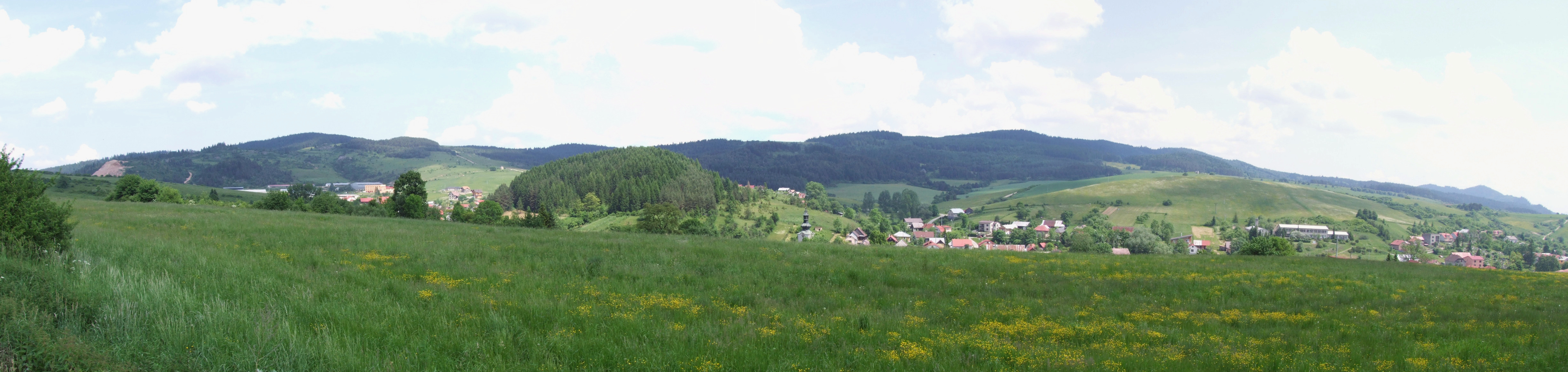 Ľubovnianska vrchowina, Jarabina (Góry Lubowelskie i słowacka miejscowość Jarabina)